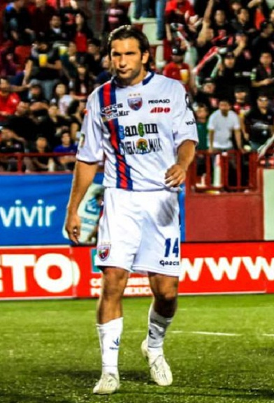 Atlante player Francisco Fonseca